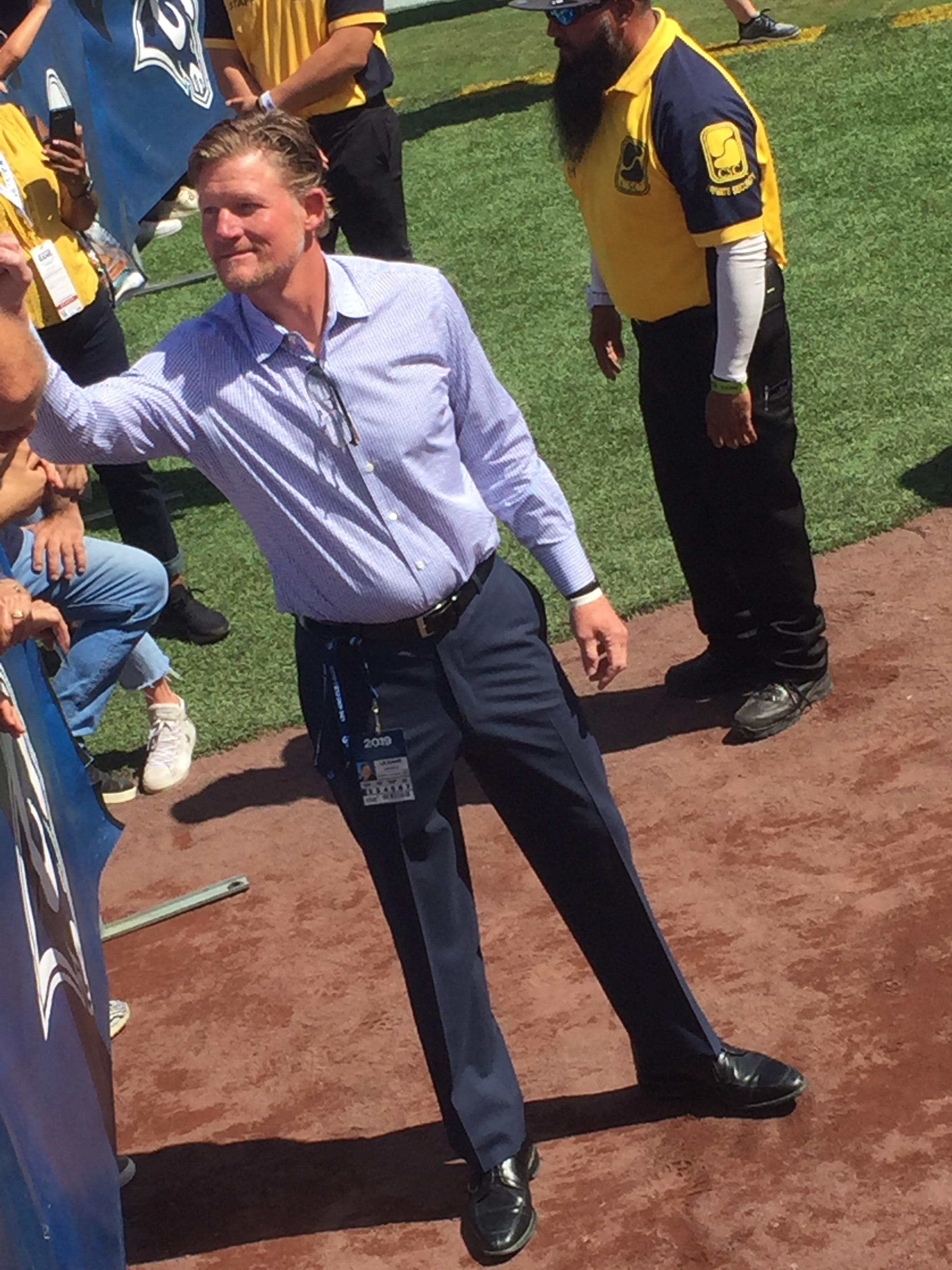 Les Snead, General Manager, Los Angeles Rams